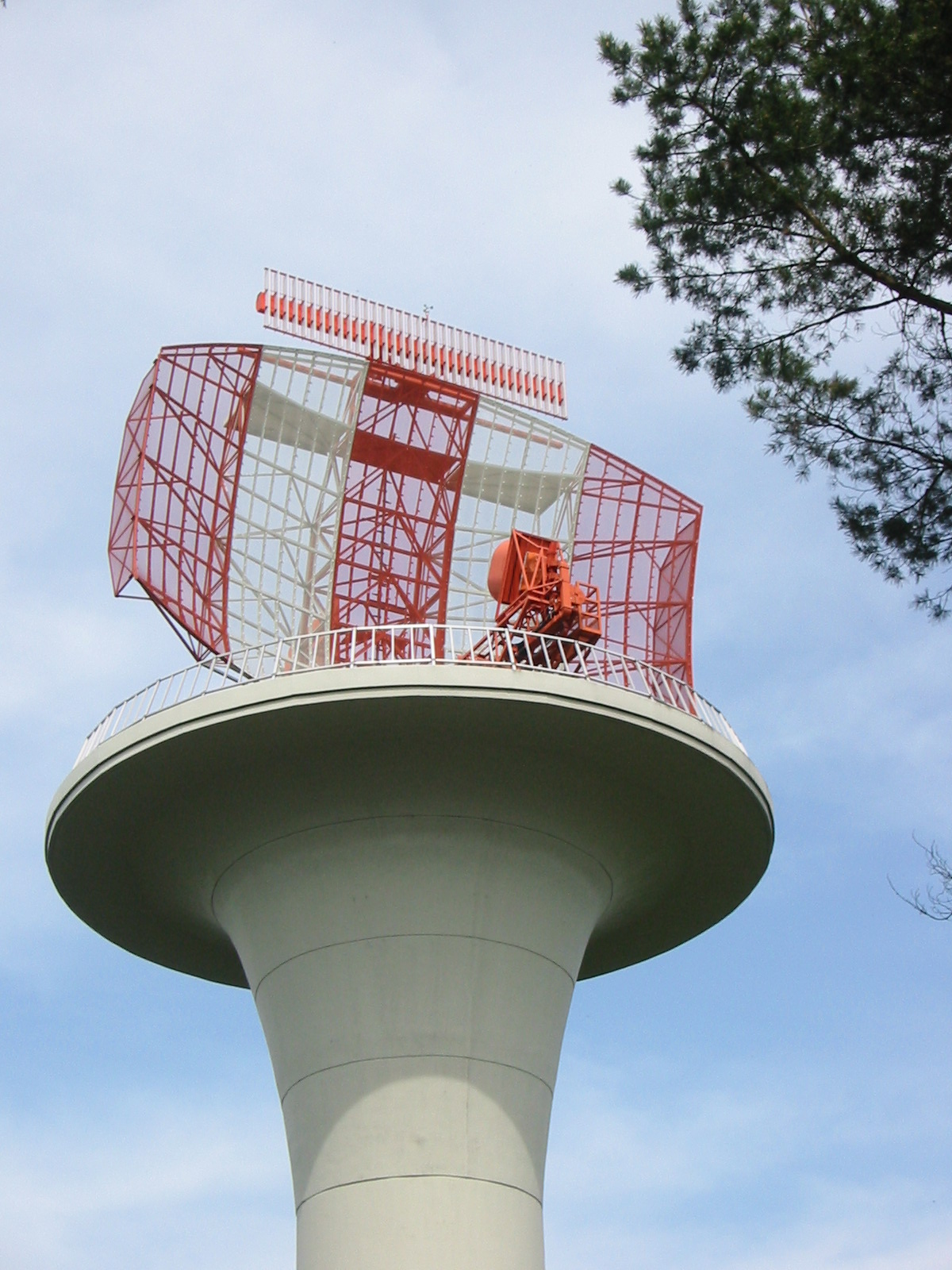 DFS radar antenna on the Deister river close to Hanover, Germany. The parabolic antenna is the primary radar and the rectangular one above it is the secondary radar. The secondary radar interrogates the transponder on the aircraft, which sends back a coded signal identifying the craft and giving its altitude.